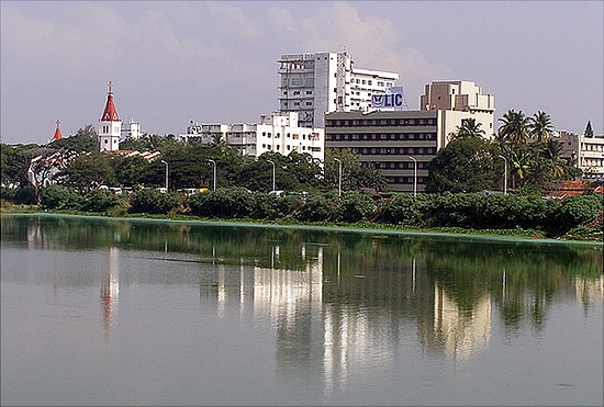 CSI church and LIC building,Near Sungam flyover, Coimbatore